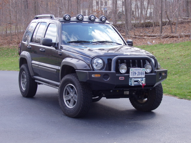 ARB 2005-2007 Jeep Liberty Bullbar